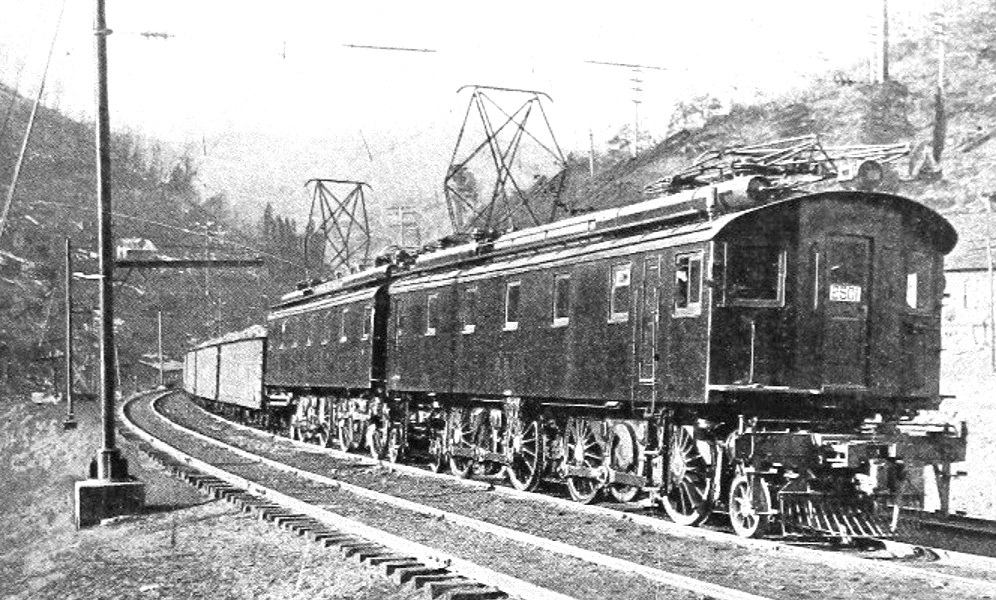 Photo of the Norfolk & Western's electric locomotive LC-1 from an ad in a 1923 edition of Railway Review. This is locomotive #2501.